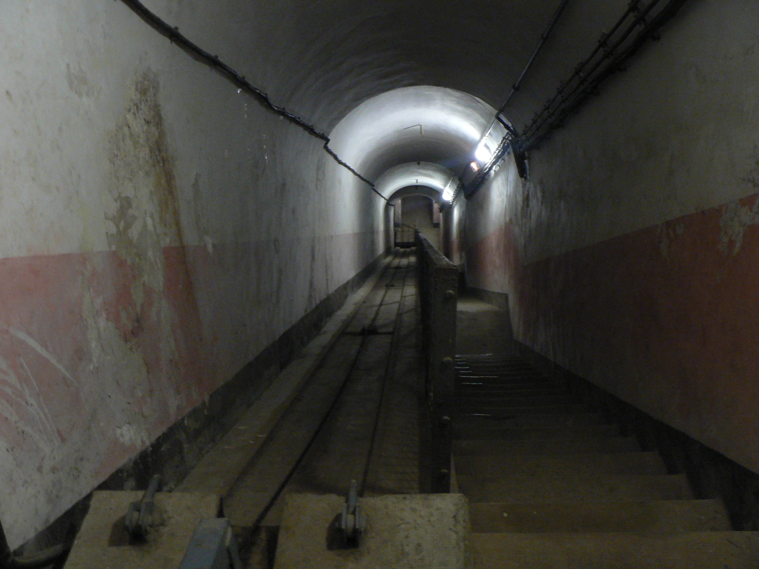 Fort Saint-Gobain, Modane downward staircase and elevator